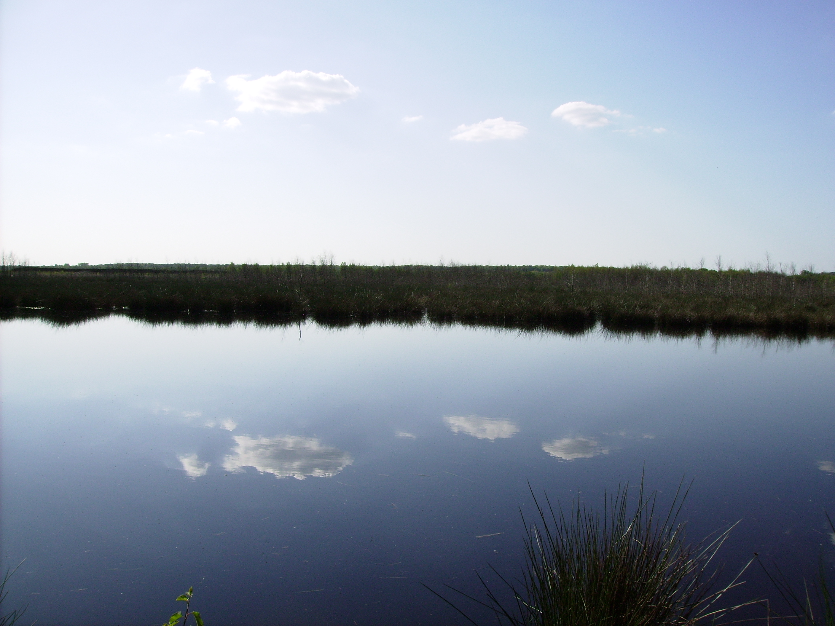 Himmelmoor in Quickborn, near Hamburg